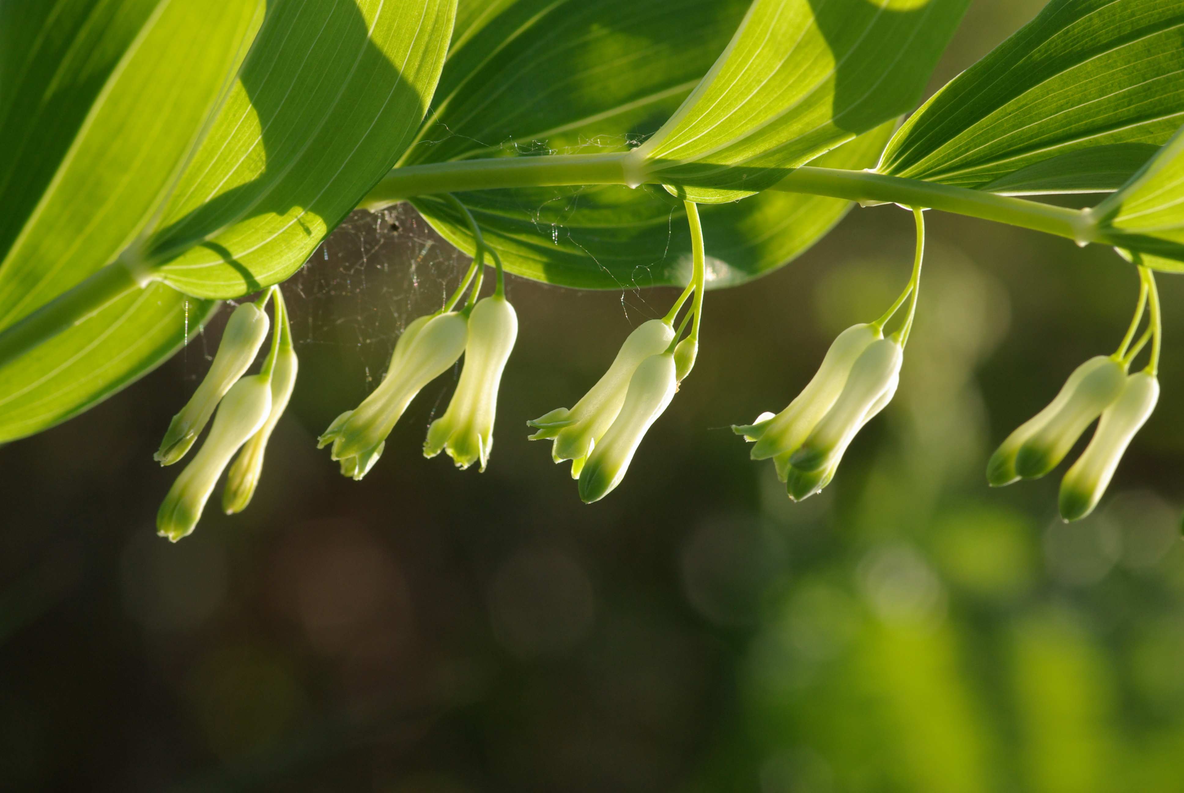 Polygonatum multiflorum